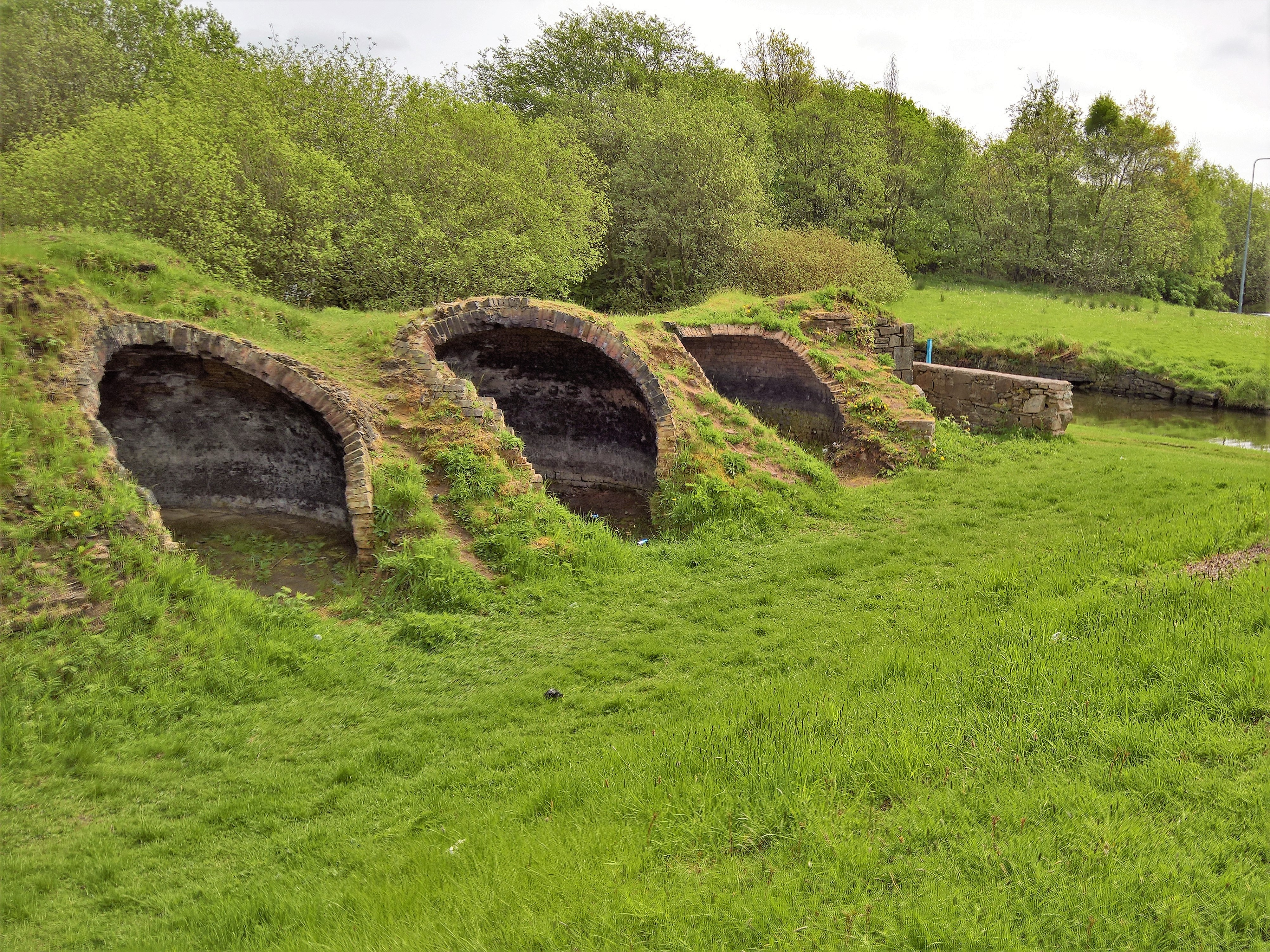 Old coke ovens at the site of Aspen Valley Colliery, Oswaldtwistle, Lancashire.